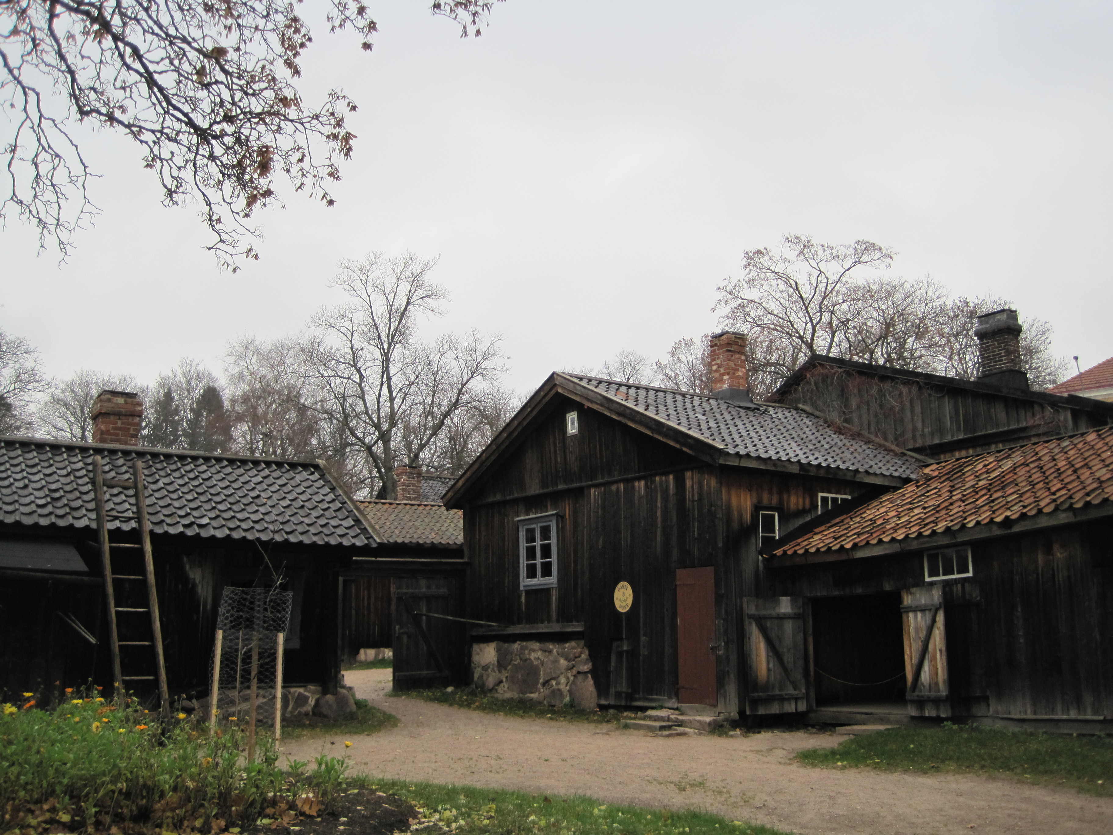 Impressions from Luostarinmäki museum: post office, Turku, Finland